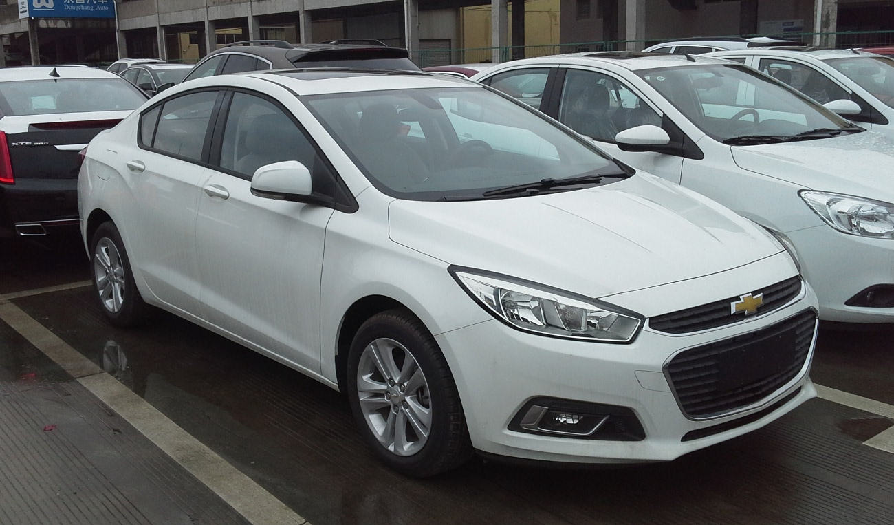 Chevrolet Cruze J400 CN photographed in Shanghai, China.